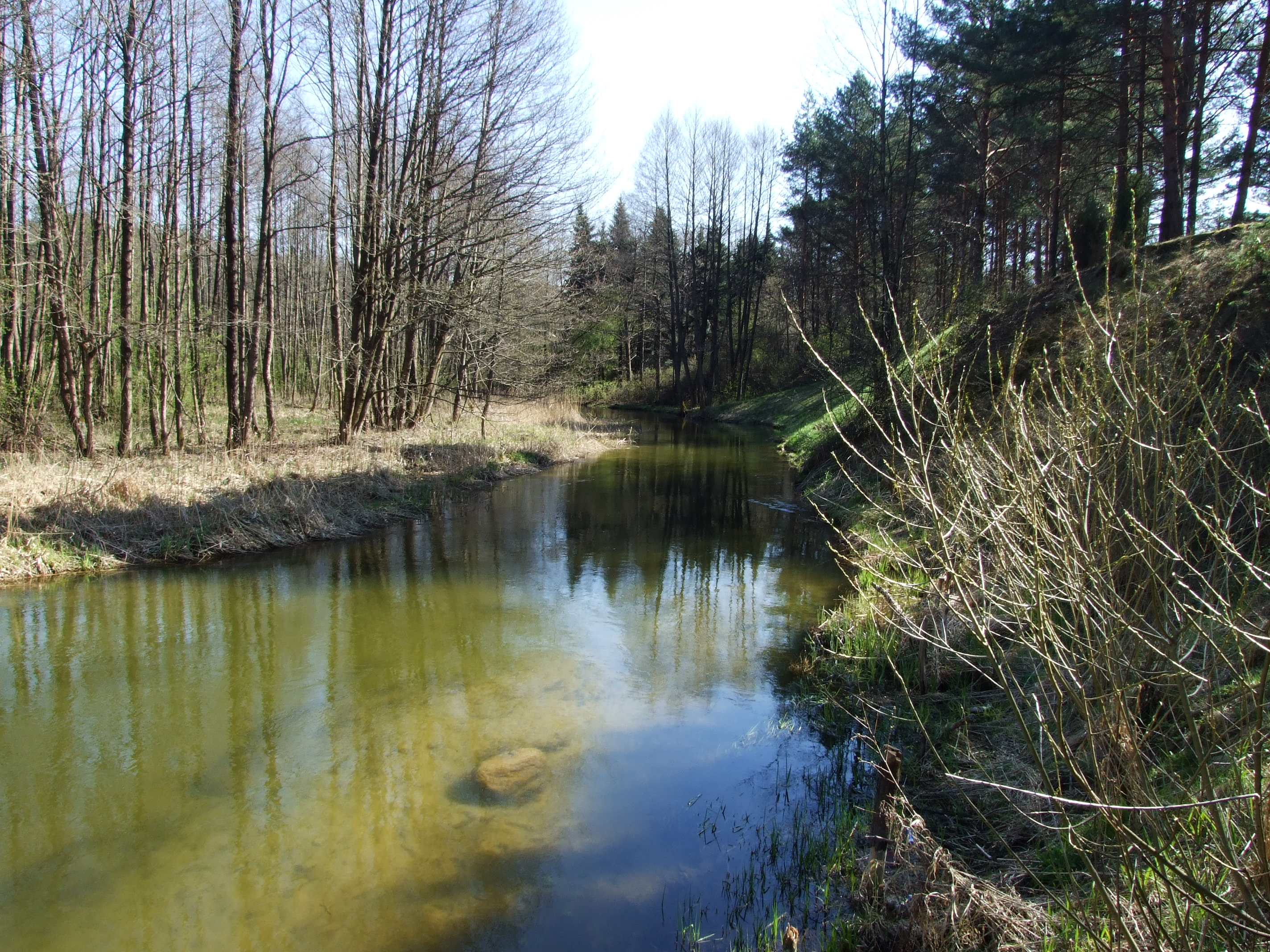 Baltoji Ancia river in Lithuania